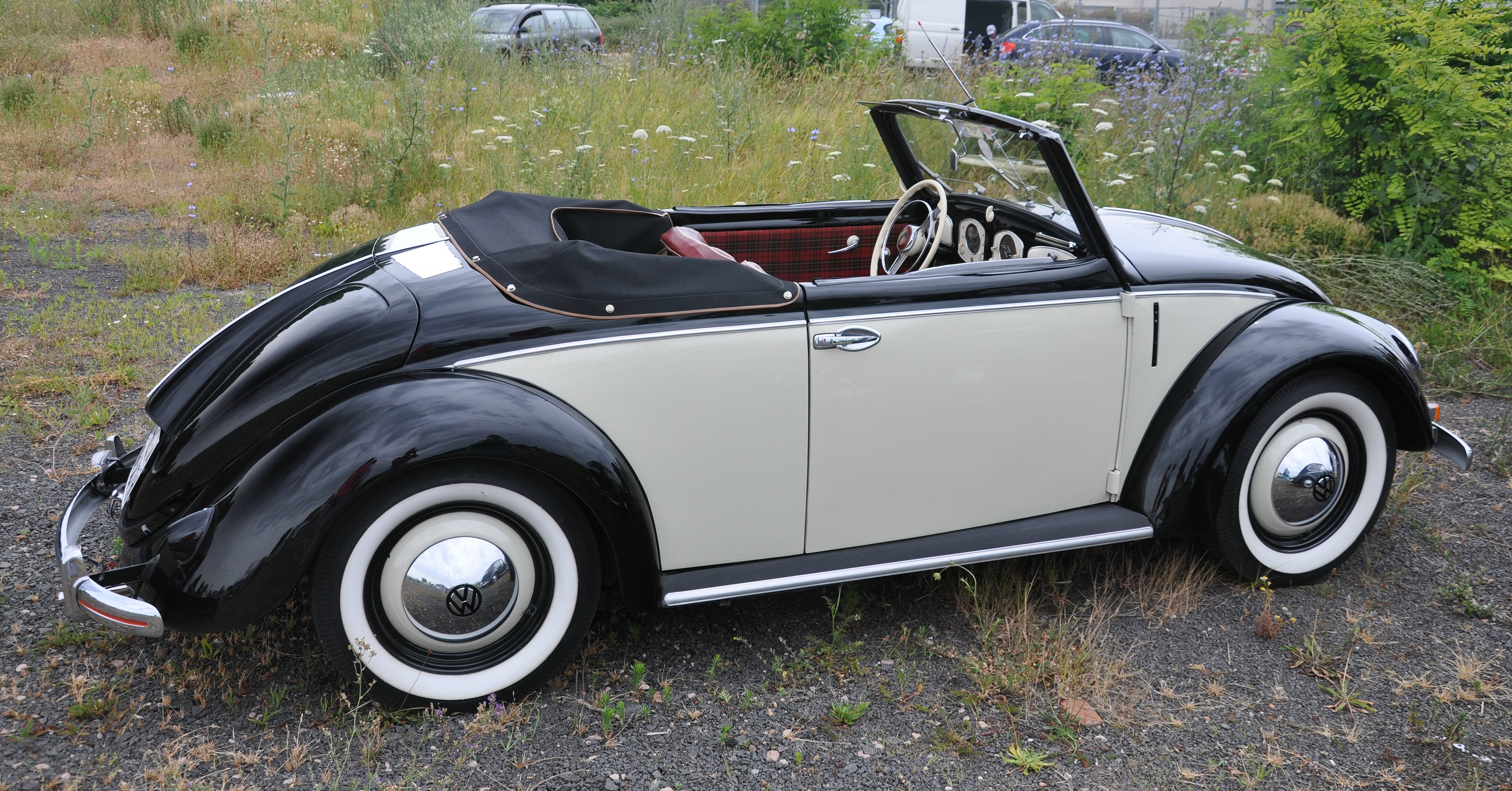 Hebmmüller Cabriolet (1948-1952)